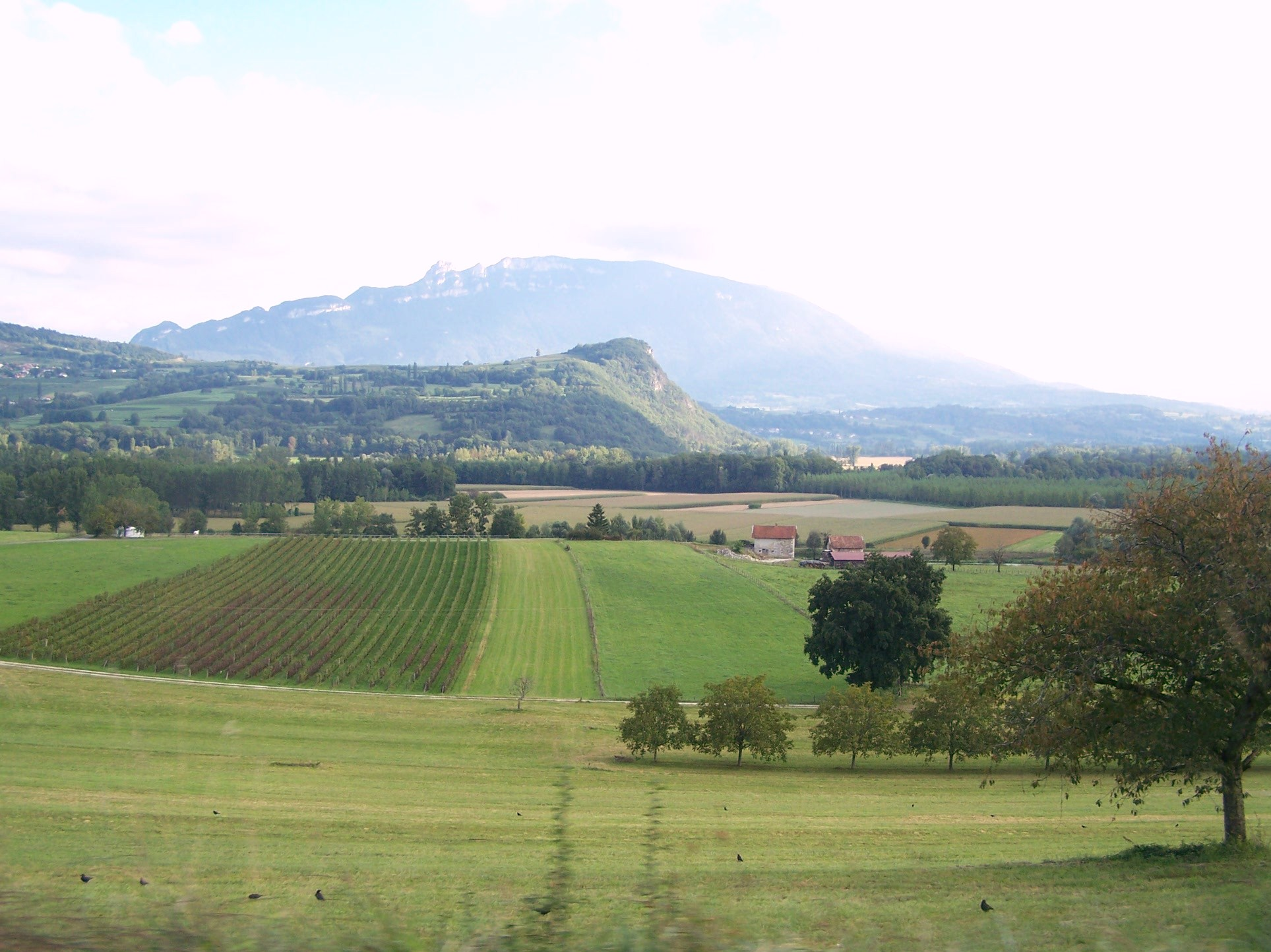 Vineyards near Massignieu de Rives in Ain (here very close to Savoie).